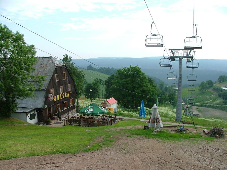 Zieleniec - Tourist House Orlica.